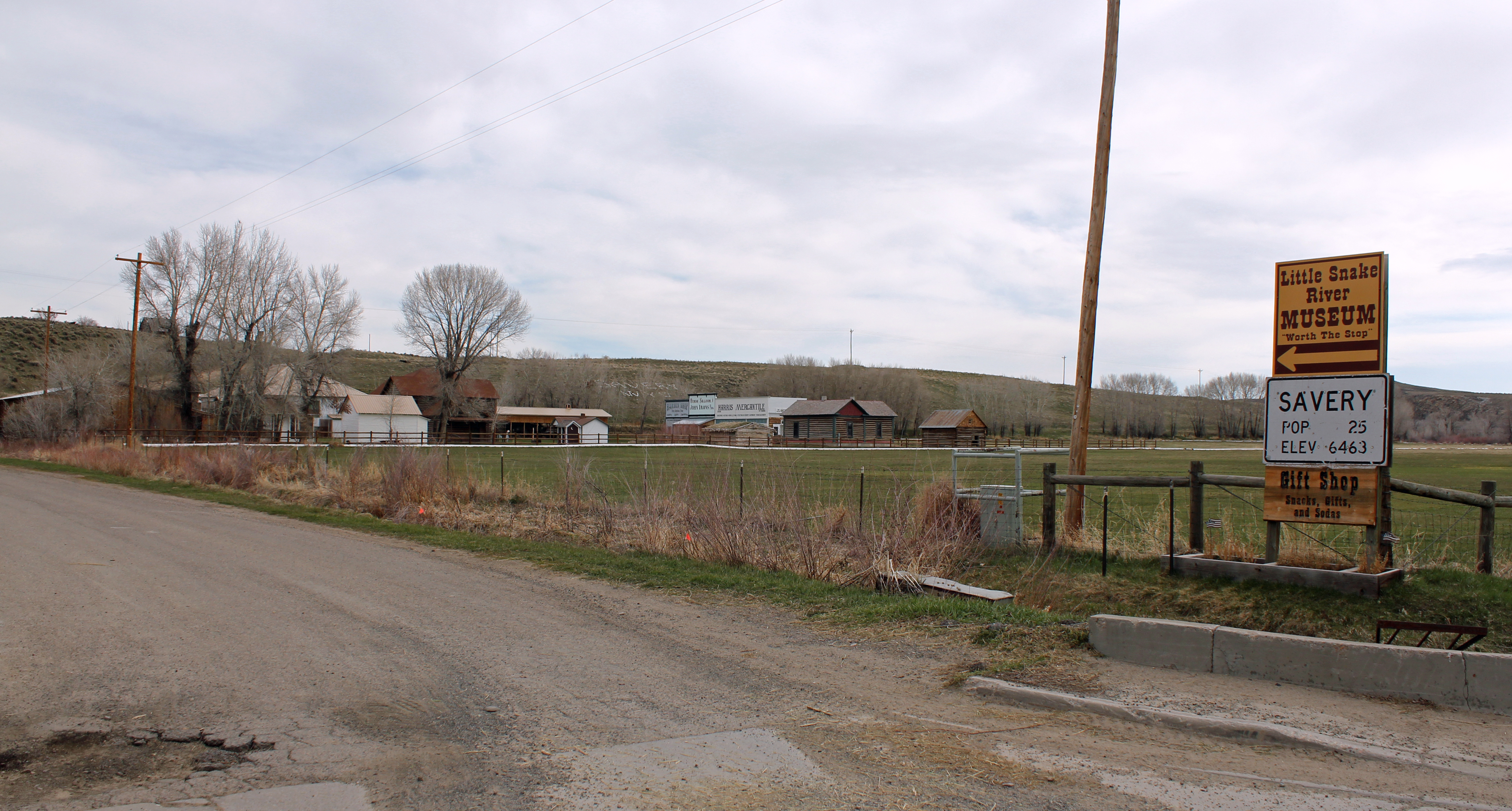 The town of Savery, Wyoming. The complex in the background is the Little Snake River Museum, located on Carbon County Road 561.